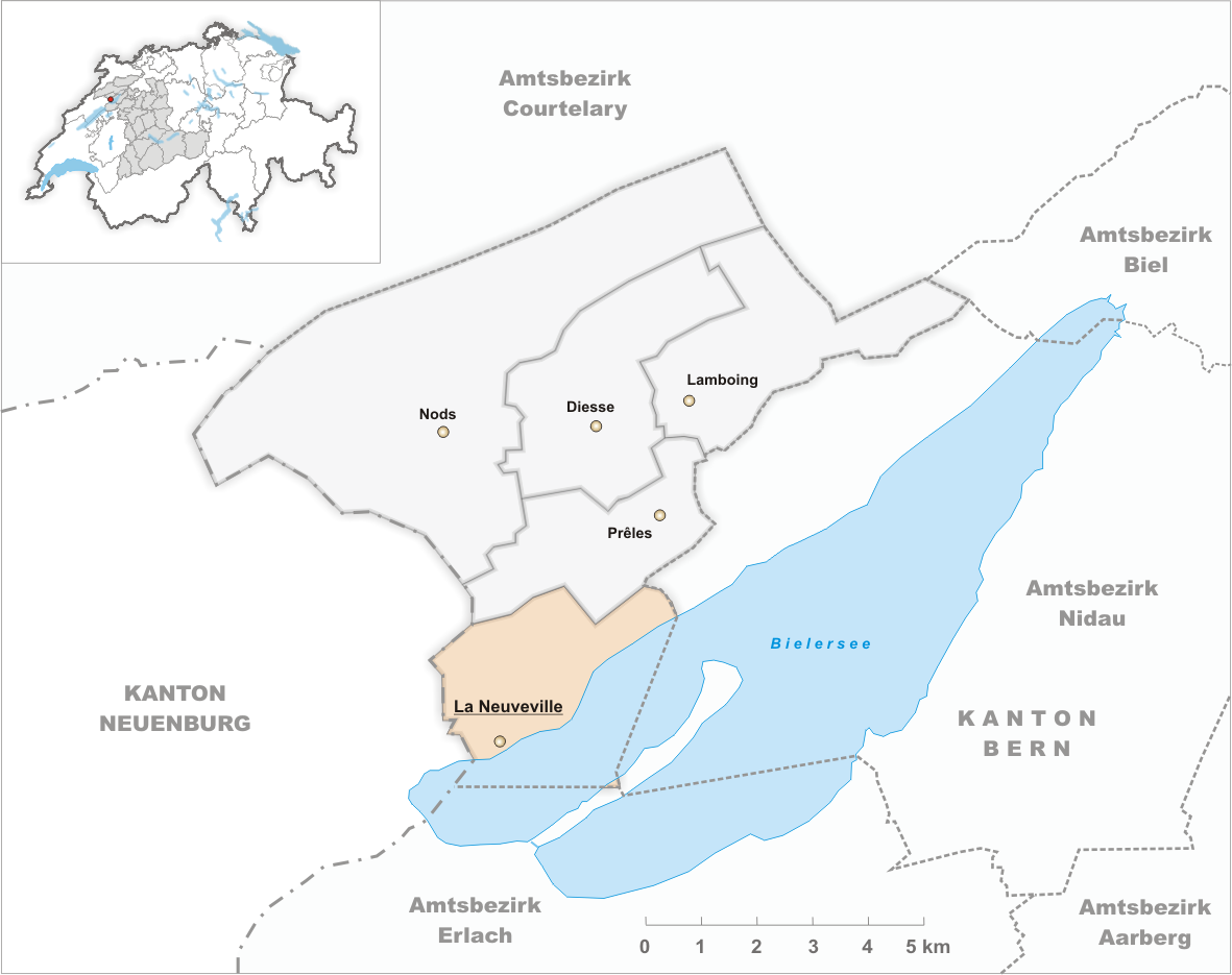 Municipality La Neuveville